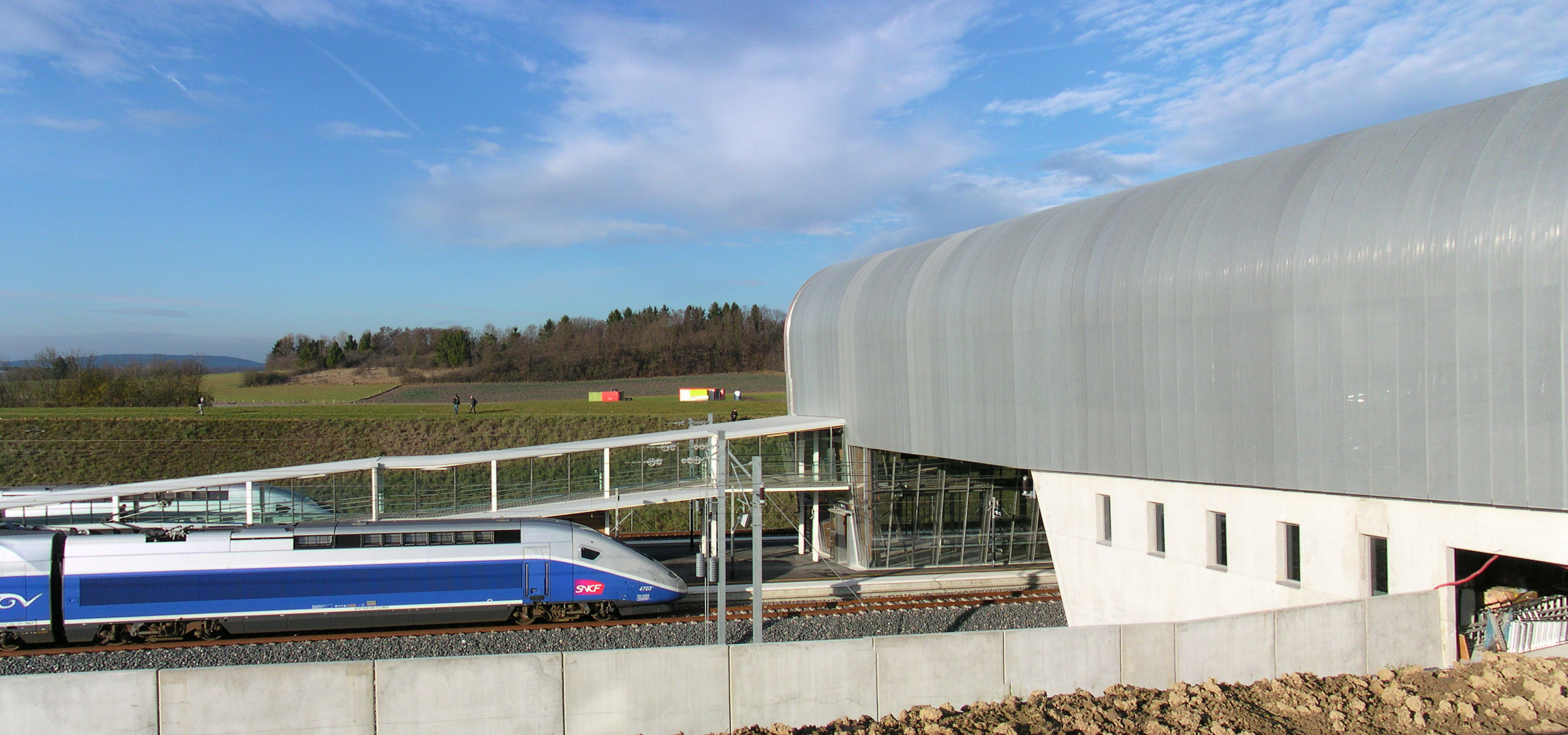 TGV Euroduplex (2N2) number 4703 train parked at the Belfort - Montbéliard TGV railway station during station's inaugural, near the passenger building. In background the TGV Duplex Dasye number 746 train.